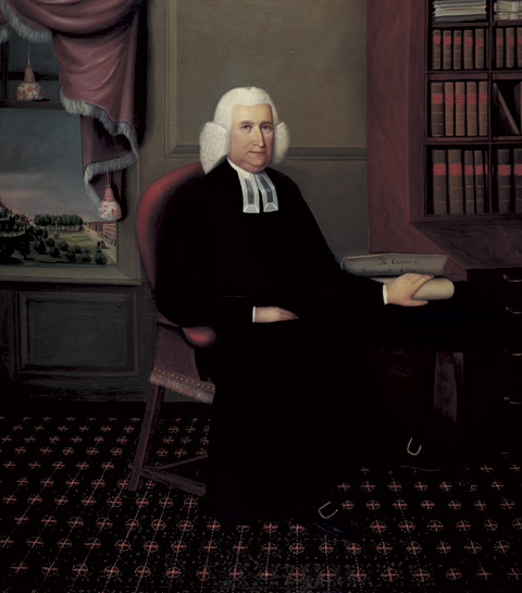 A painting of Eleazar Wheelock, founder and first president of Dartmouth College in Hanover, New Hampshire. Painted c. 1793-1796 by Joseph Steward (1753-1822)